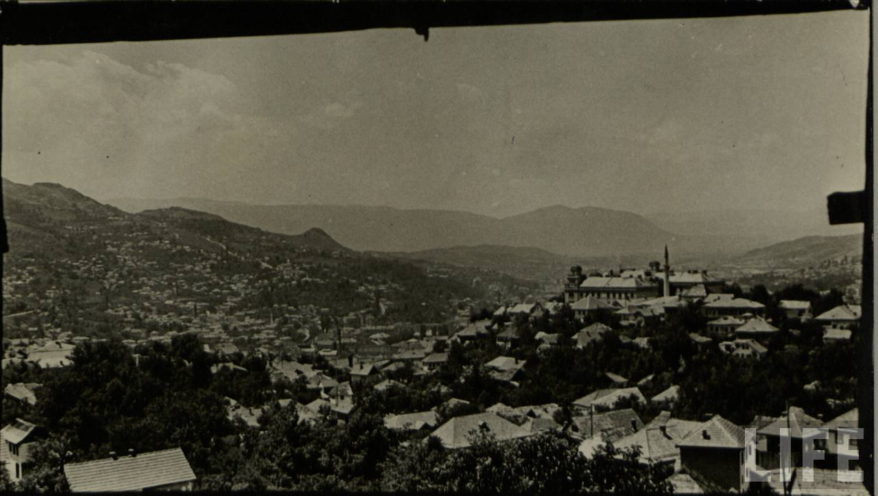 Sarajevo in 1910s, in the days of the assassination of Franz Ferdinand